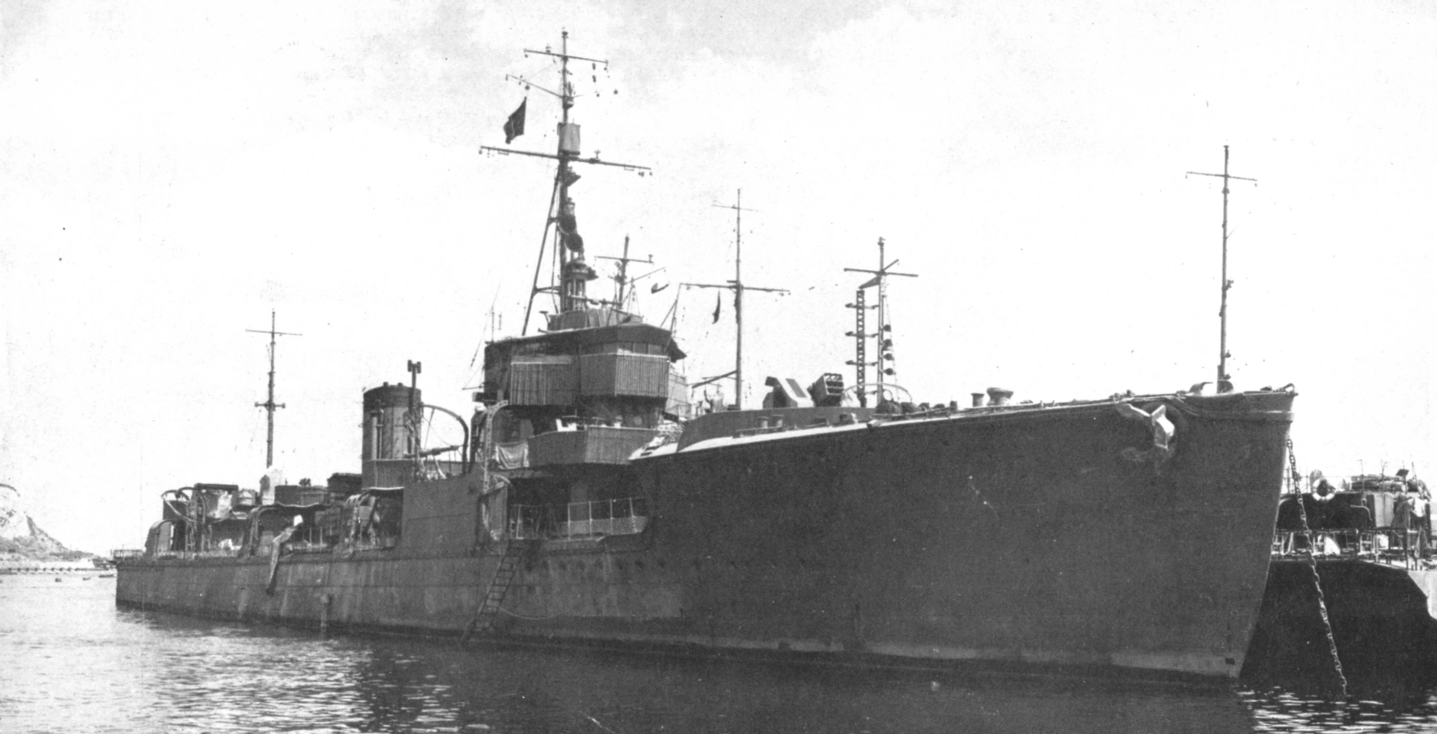 Imperial Japanese Navy destroyer Sawakaze, Minekaze-class.